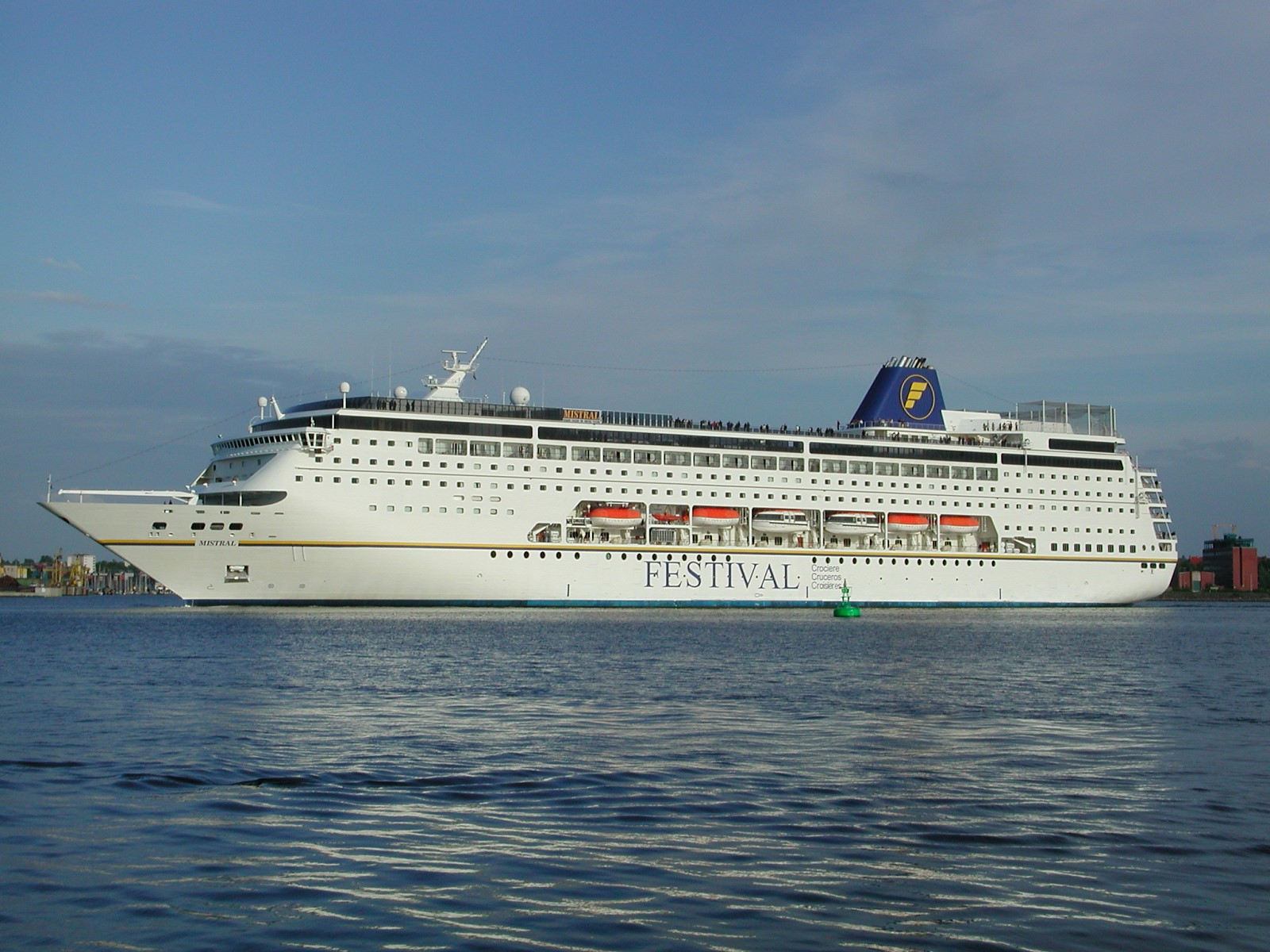 Cruise ship Mistral in Kiel harbor. Information about Mistral may be found at IMO 9172777.A ship can change name and flag state through time, but the IMO number remains the same through the hull's entire lifetime. As a result, it can be useful to identify a ship by using the IMO number.